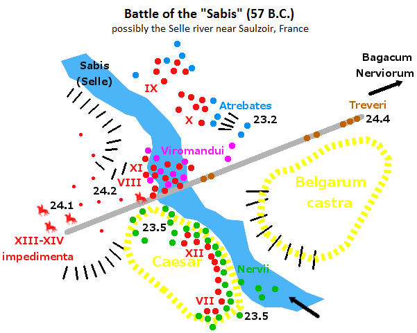 Positions of the Roman and Belgic forces in the Battle near the "Sabis" River, here corresponding to the Selle River